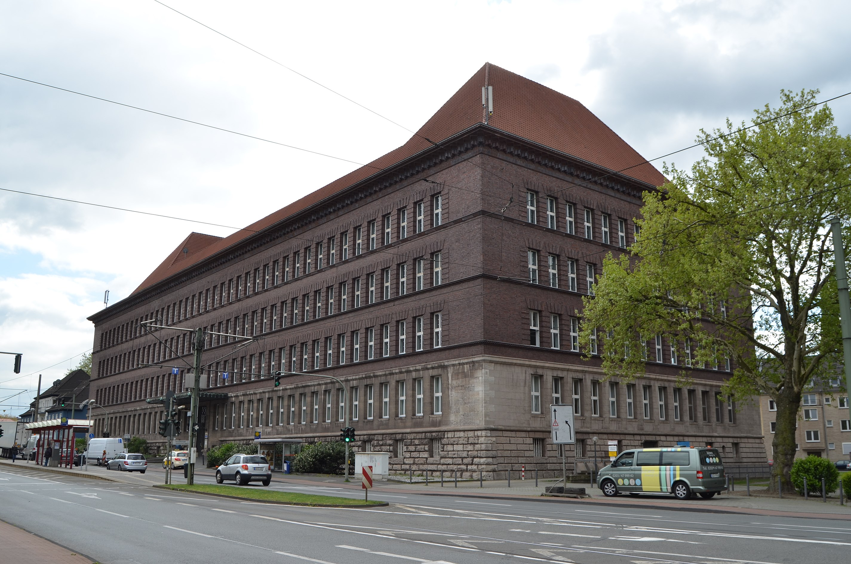 Duisburg (North Rhine-Westphalia, Germany) – borough Homberg/Ruhrort/Baerl, district Ruhrort – Tausendfensterhaus ("house of thousand windows") This image shows a heritage building in Germany, located in the North Rhine-Westphalian city Duisburg (no. 245). This photograph was taken with a Nikon D7000